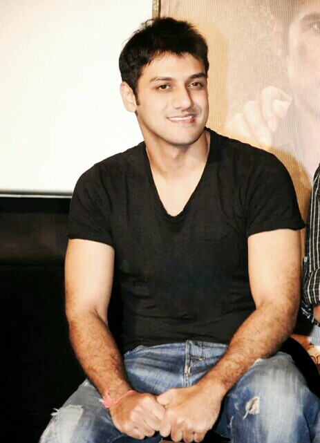 Datt at Table No 21 success.